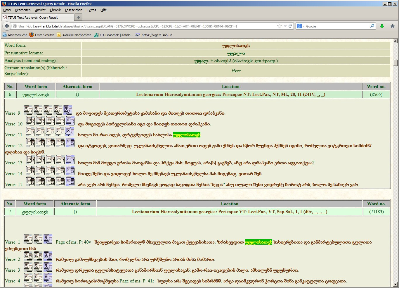 TITUS Text Retrieval